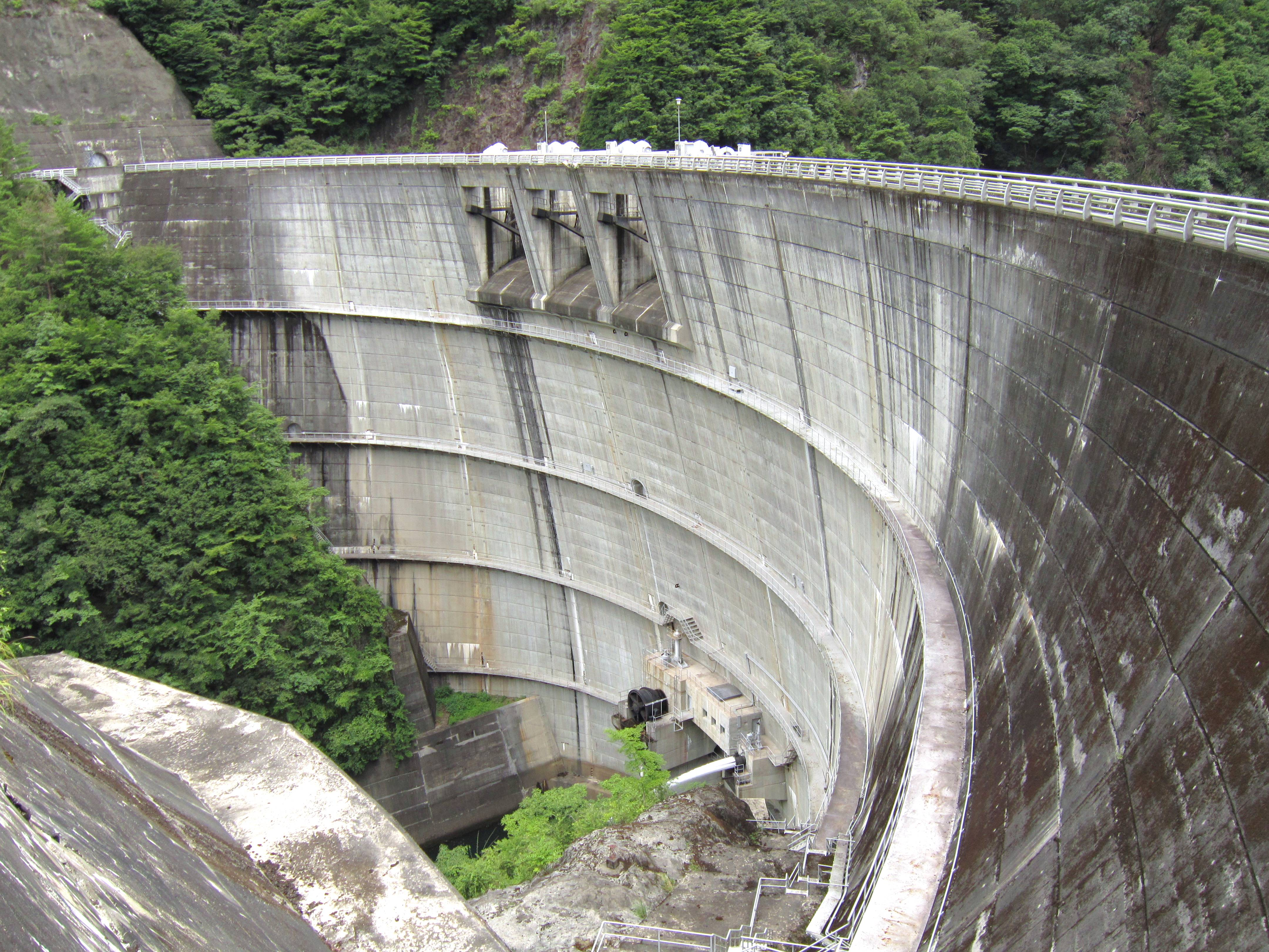 Asahi Dam.